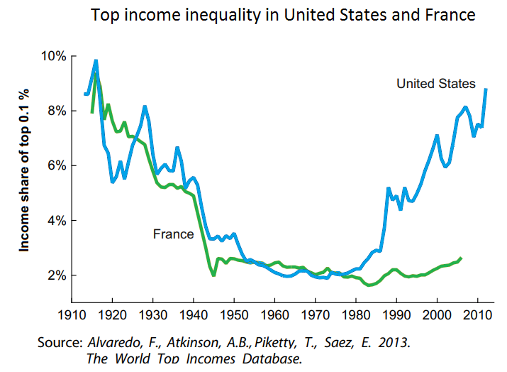 Top income inequality in the United States and France